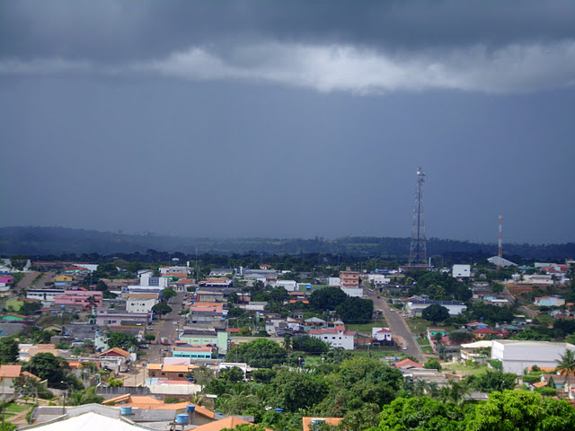 View of the City of Colorado do Oeste, State of Rondônia